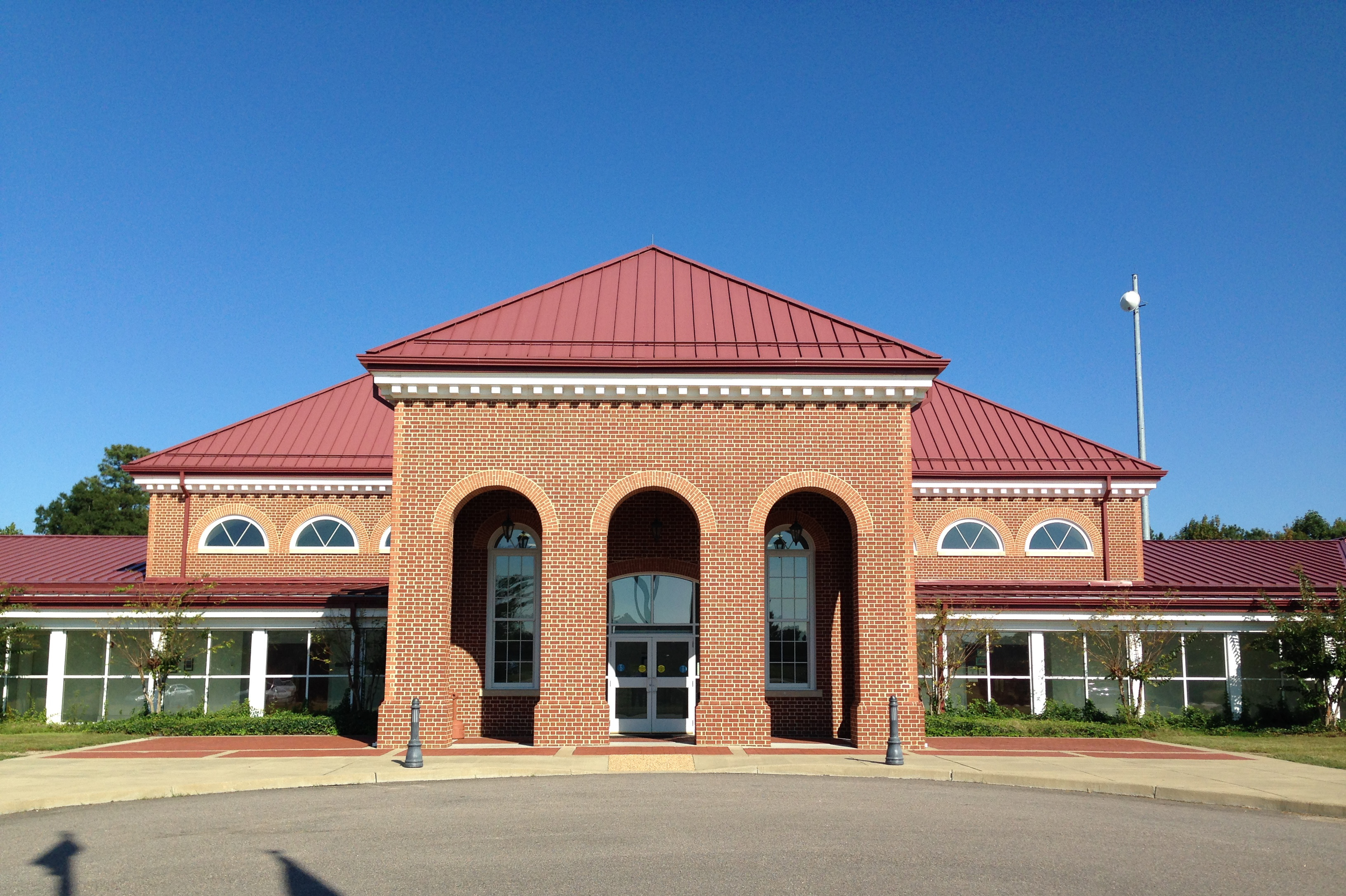 Courthouse in Charles City County, Virginia